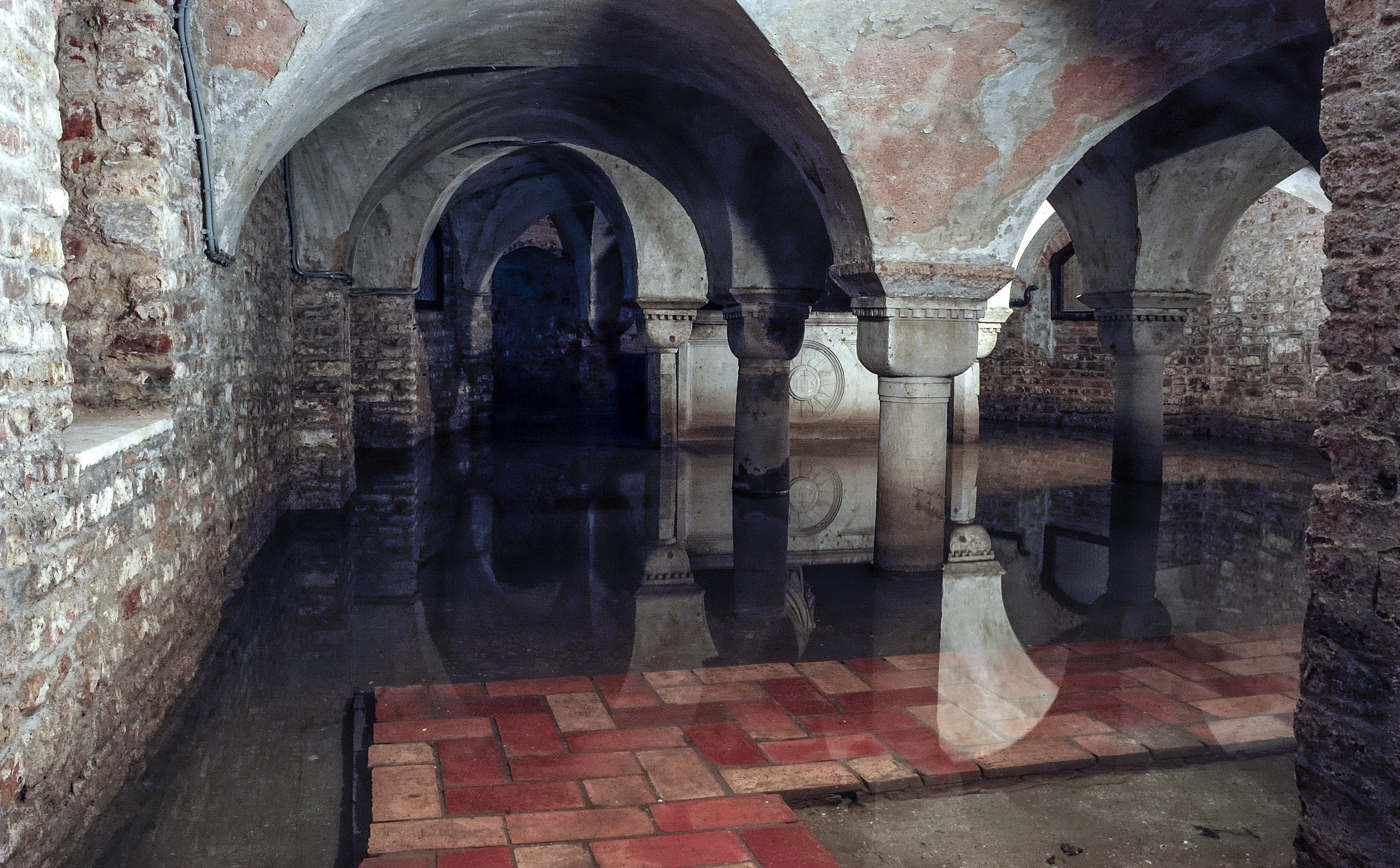 Crypt of San Zaccaria church in Venice